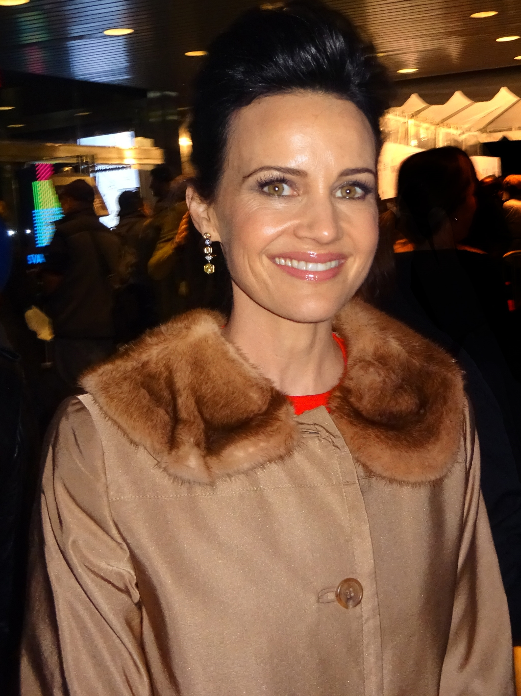 Star of Karen Sisco